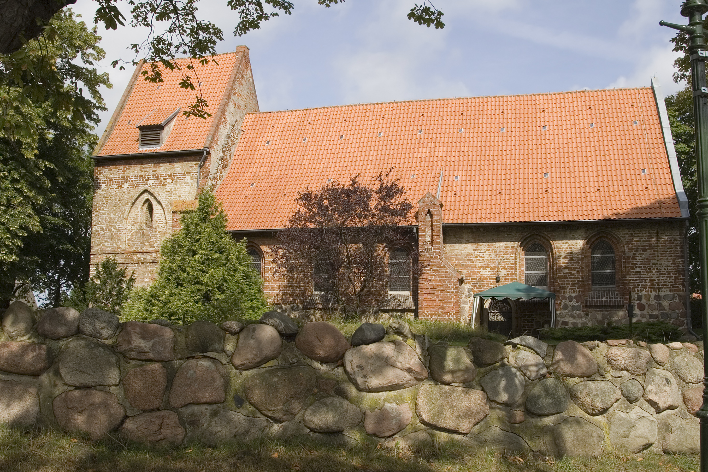 Koserow, Usedom, church